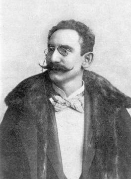 Hermann Keidanz (Keidanski), chess player and chess composer from Prussia